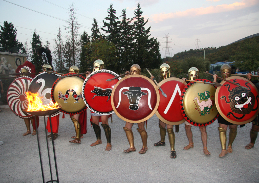 Hoplites of Ancient Greece (in modern Greece) in a 5th century B.C. portrayal of a hoplites advancing.